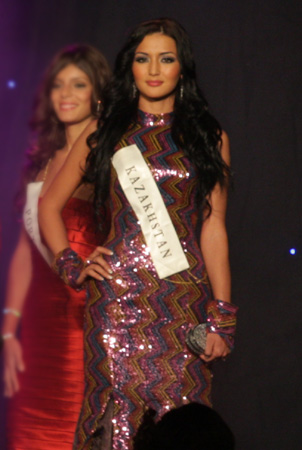 Miss Kazakhstan 2008 Alfina Nassyrova during Miss World 08